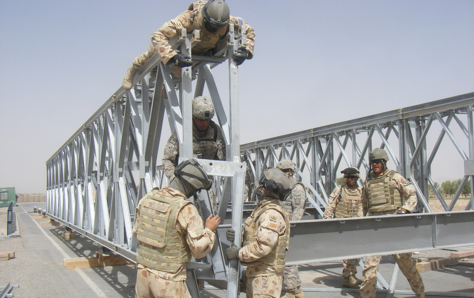 Australian and American combat engineers rebuild the Mabey Johnson Bridge in Afghanistan.